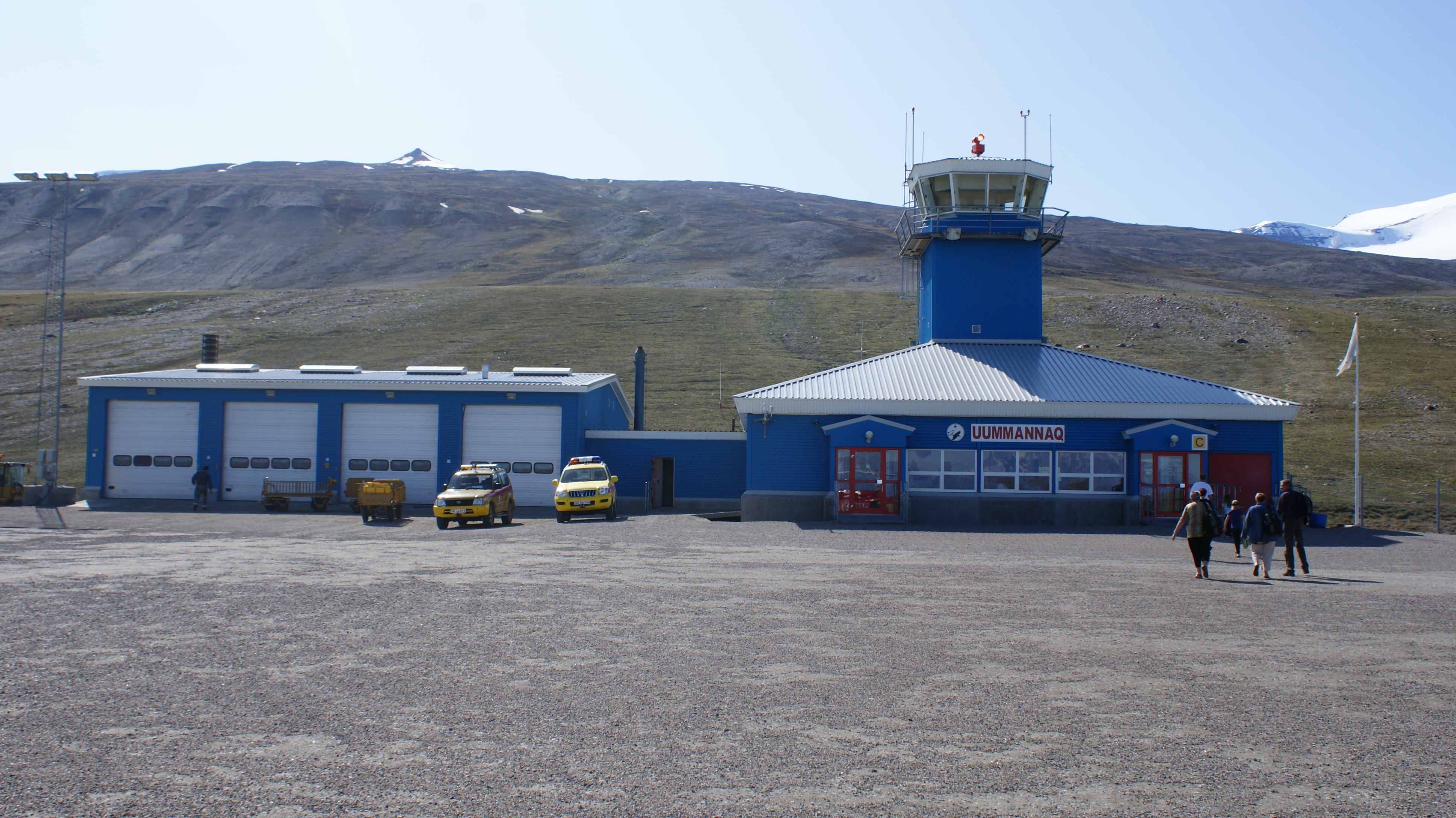 Qaarsut Airport, Greenland. Never mind the label on the building; it's for package tourists...